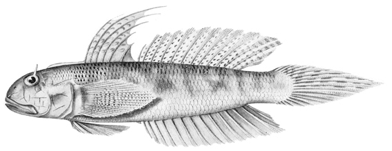 Oxyurichthys cornutus from Australian National Fish Collection Images. 1918 image "out of copyright"